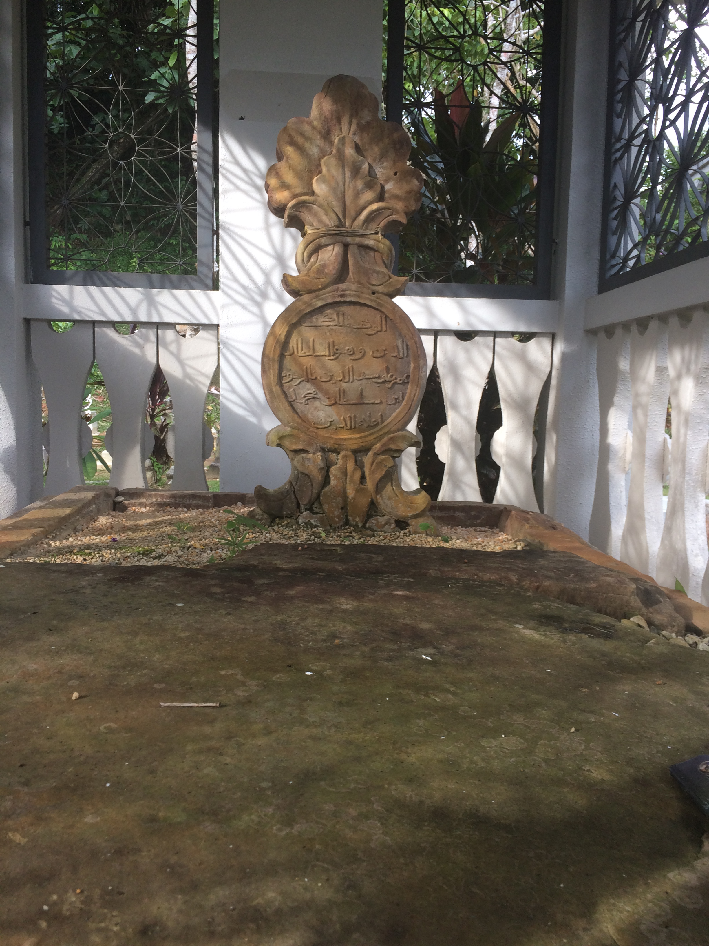 Tombstone of Sultan Omar Ali Saifuddin I, the 18th Sultan of Brunei.